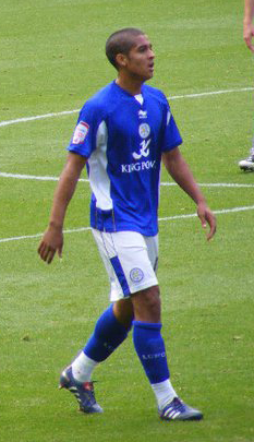 Image of Kyle Naughton on his Leicester City debut